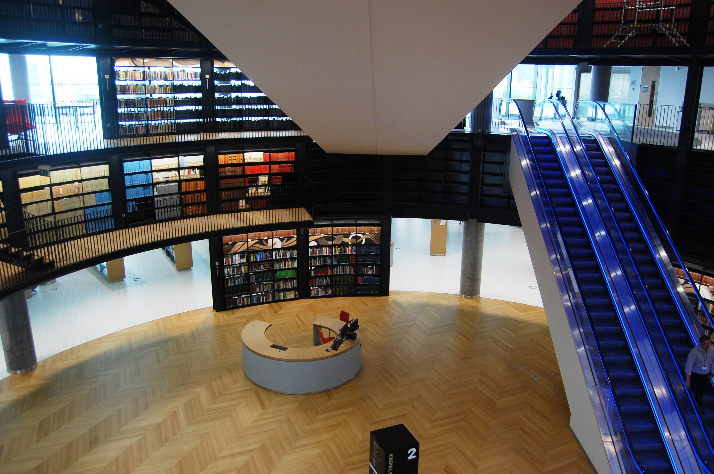 Interior of the Library of Birmingham, seen during a preview tour in the week before opening.